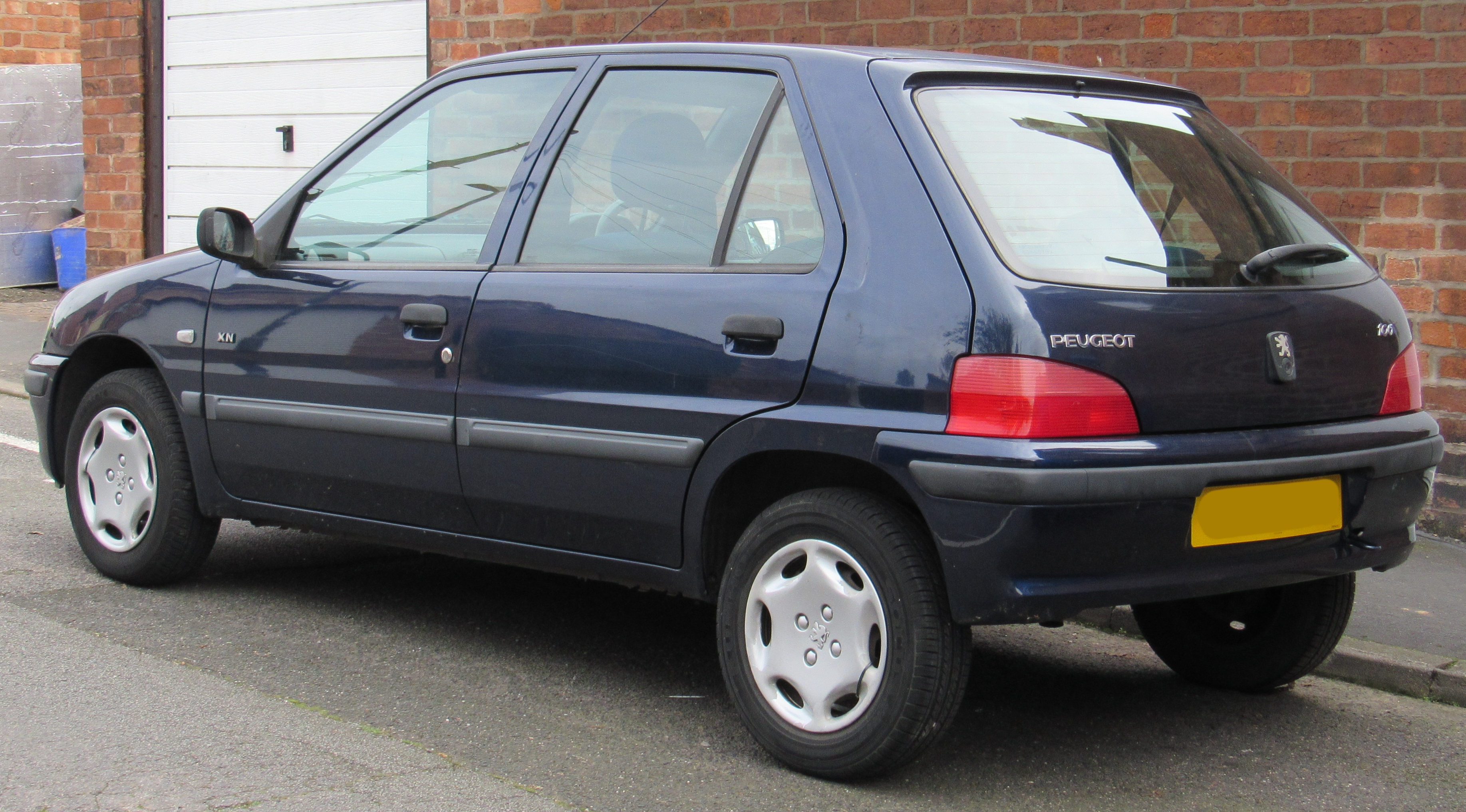 2001 Peugeot 106 XN Zest 2 1.1 Rear Taken in Leamington Spa